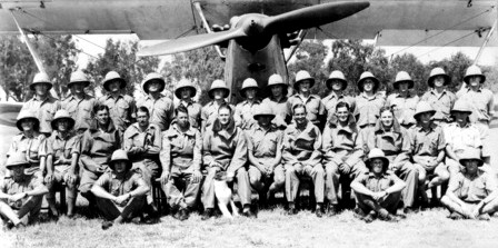 Richmond, NSW. 1940-03. No. 26 Course, RAAF. Group portrait of that half of the course who graduated at Richmond Flying School, NSW, the other half being at Laverton. Back row: Cadets Frederick Reginald Mcgrill; Nelson Prior Reid; Bruce William Graham; George Robert Shave; James Mcdonald Davidson; Garth Millett Snook; Derek Randell Cuming; Joseph Irwin Stanley; Clifford Richard Mckenny; Vaughan East; Claude Hippingstone Dodwell Browne; Bryan Todd; Arthur Herbert Verdun Polley; Jack Royston Kinninmont. Centre row: Cadets Bryan John Wiley; Adam Howie Brydon; Flying Officer Read; Flight Lieutenant (Fl Lt) Thomson; Fl Lt Primprose; Fl Lt Holswhich; Fl Lt Glasscock; Fl Lt Wright; Fl Lt Cooper; Fl Lt Scott; Cadets Cyril William Stark; Alan Hill Boyd. Front row: Cadets Montague David Ellerton; Vernon William "Carlo" Morgan; Wilfred Stanley Arthur; Geoffrey John Hitchcock. Flying instructors are indicated by rank. Course members are all cadets.